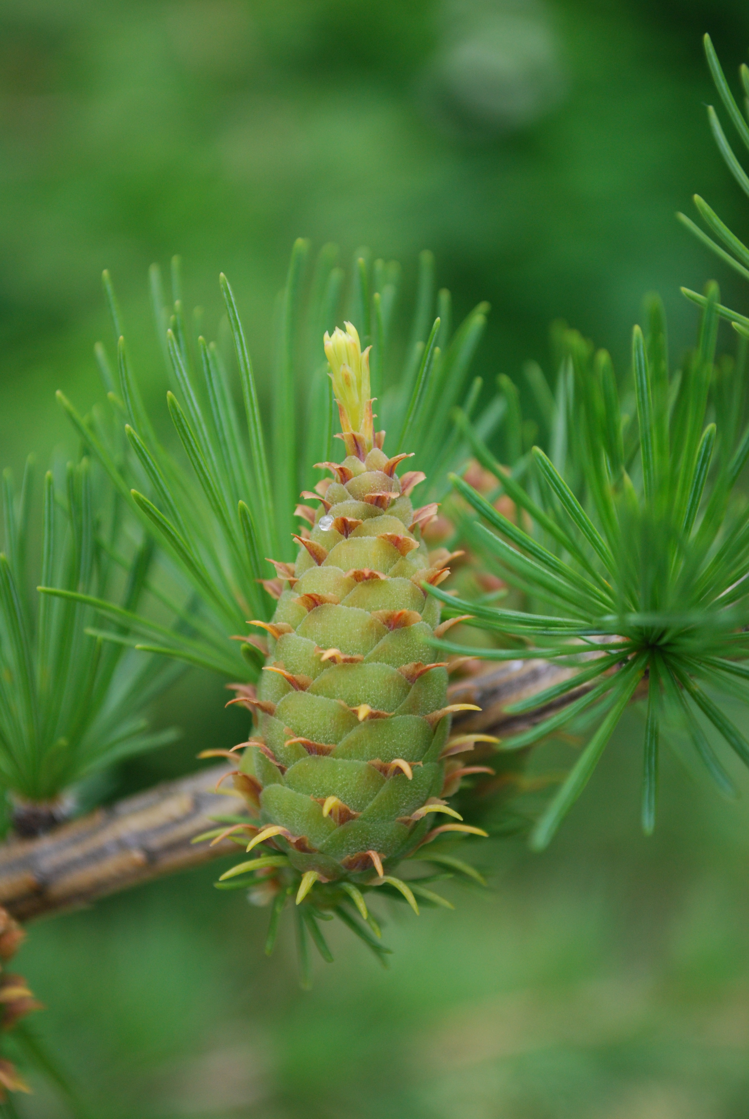 European Larch Larix decidua cone, with proliferation at the apex.